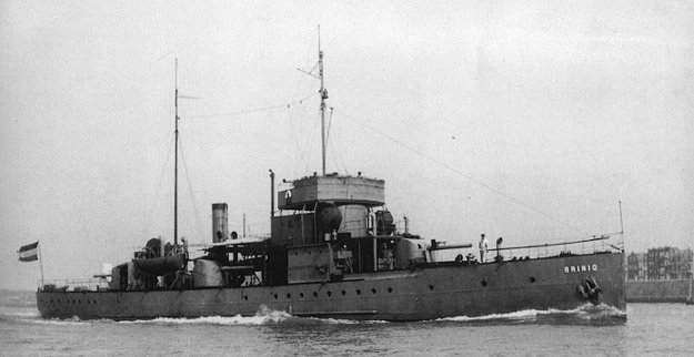 Dutch Gruno Class gunboat Brinio during the pre WOII years